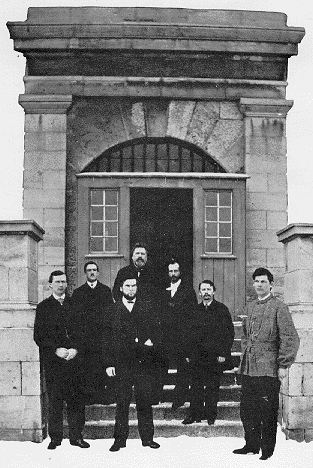 Confederates (after raid on St. Albans, Vermont) outside the Montreal jail, 1864.